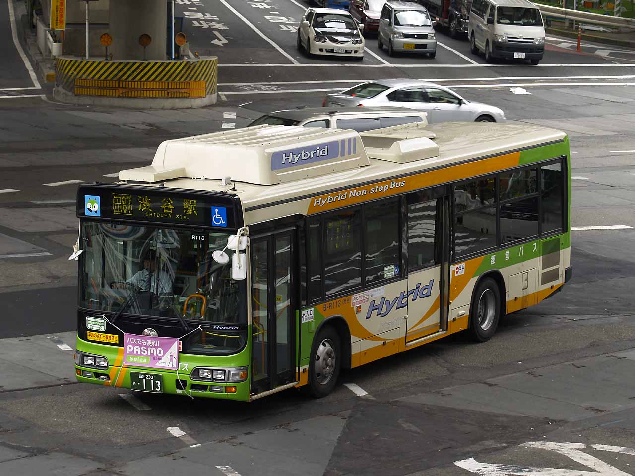 The 1st group of Hino Blue Ribbon City Hybrid for Toei Bus. License plate: TKS230 A-113 Place: neighbour of Shibuya station east, Shibuya ward, Tokyo Japan